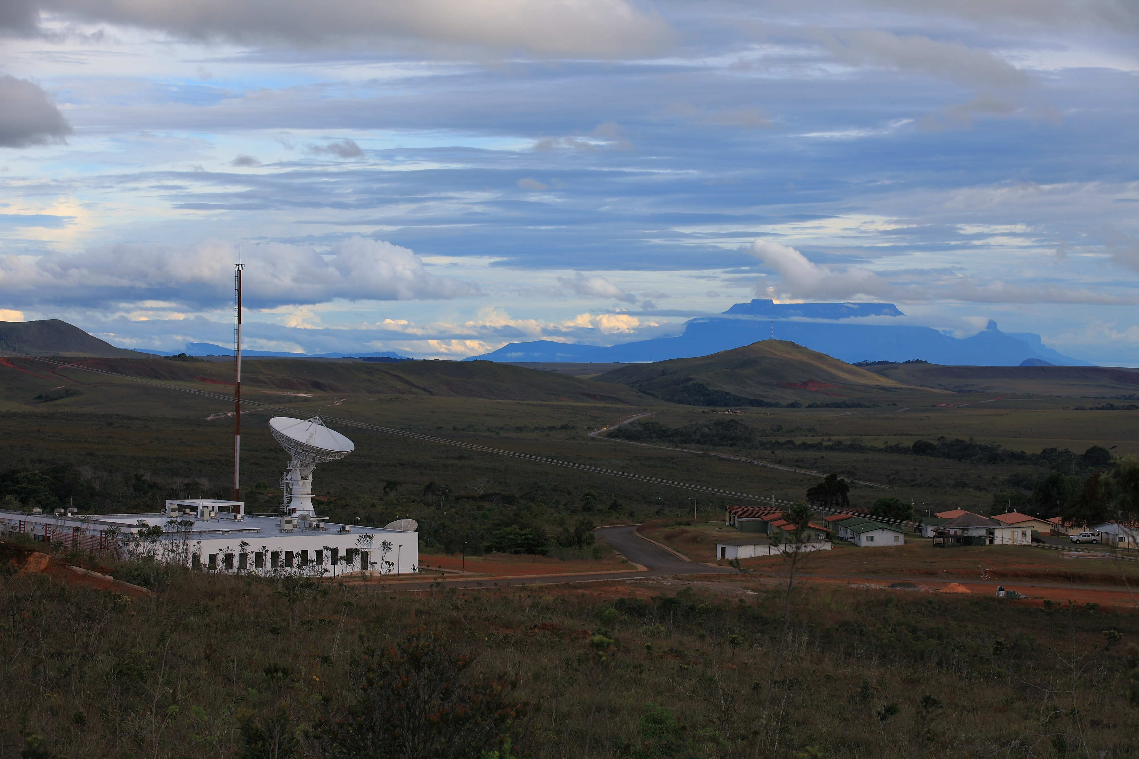 Tepui and satellite control station, Luepa, Bolivar